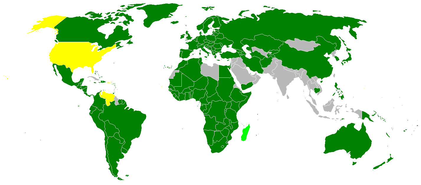 A map of initial signatories to the Convention Relating to the Status of Refugees, as compiled by UNHCR. Parties to only the 1951 Convention Parties to only the 1967 Protocol Parties to both Non-members